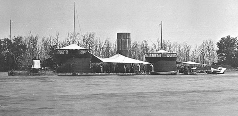 From U.S. Navy public domain Photo #: NH 63173 USS Onondaga (1864-1867) At anchor on the James River, Virginia, during the Civil War, circa 1864-65. Photographed by Brady and Company. The original glass plate negative is in the Brady Collection, U.S. National Archives. U.S. Naval Historical Center Photograph.